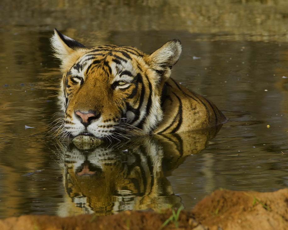 Last time I went to Ranthambhore Tiger Reserve in Rajasthan, India, I was lucky to photograph a fine female tiger, Bubbly, who later got relocated to Sariska, also in Rajasthan, from where the tiger population had vanished due to poor management and malpractices. That is when I fell in love with Ranthambhore and with tigers as a whole. My love for the Big Cats brought me back to Ranthambhore this year again. I spent longer time at the National Park this time and was lucky to be able to photograph two of the best specimens of the Royal Bengal Tiger (Panthera tigris). Once you meet a tiger at Ranthambhore, you know why it is called the %u201CRoyal%u201D Bengal Tiger. Though Lion is universally accepted King of the forest, he is no match to the tiger in grace, beauty and nobility. This one is without doubt the most beautiful female tiger on earth, the equivalent of Miss World, indeed the tiger version of Aishwarya Rai. Except for two things. This one has a very unromantic name, T17. And unlike the former Miss Word, she has still not found her mate. Those unimaginative Forest guys have put a radio collar on her, but I managed this shot where the collar is not visible, almost%u2026